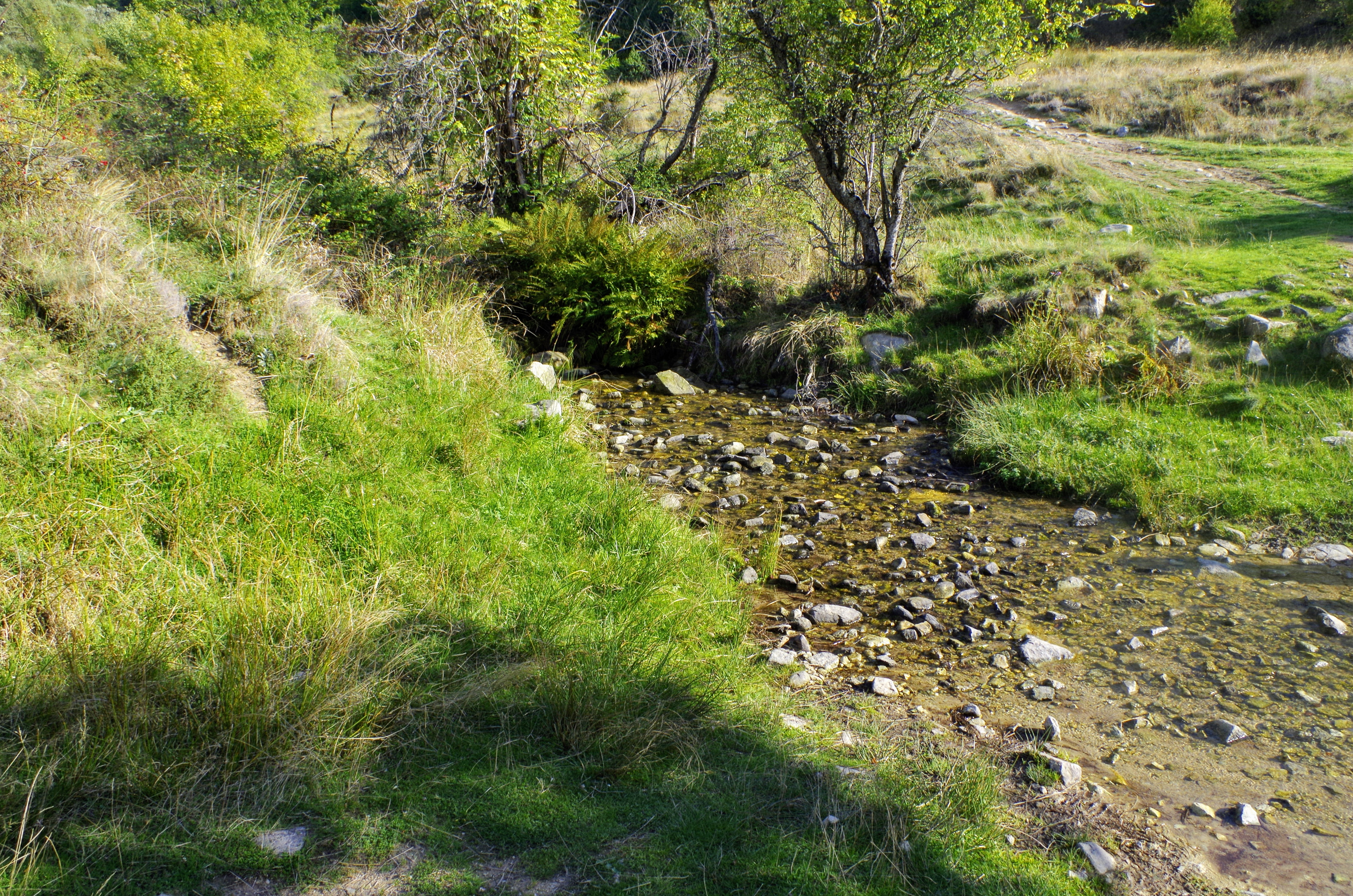 View of the river in the village Štrbovo